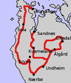 Map of Rogaland Grand Prix route in 2008 and 2009